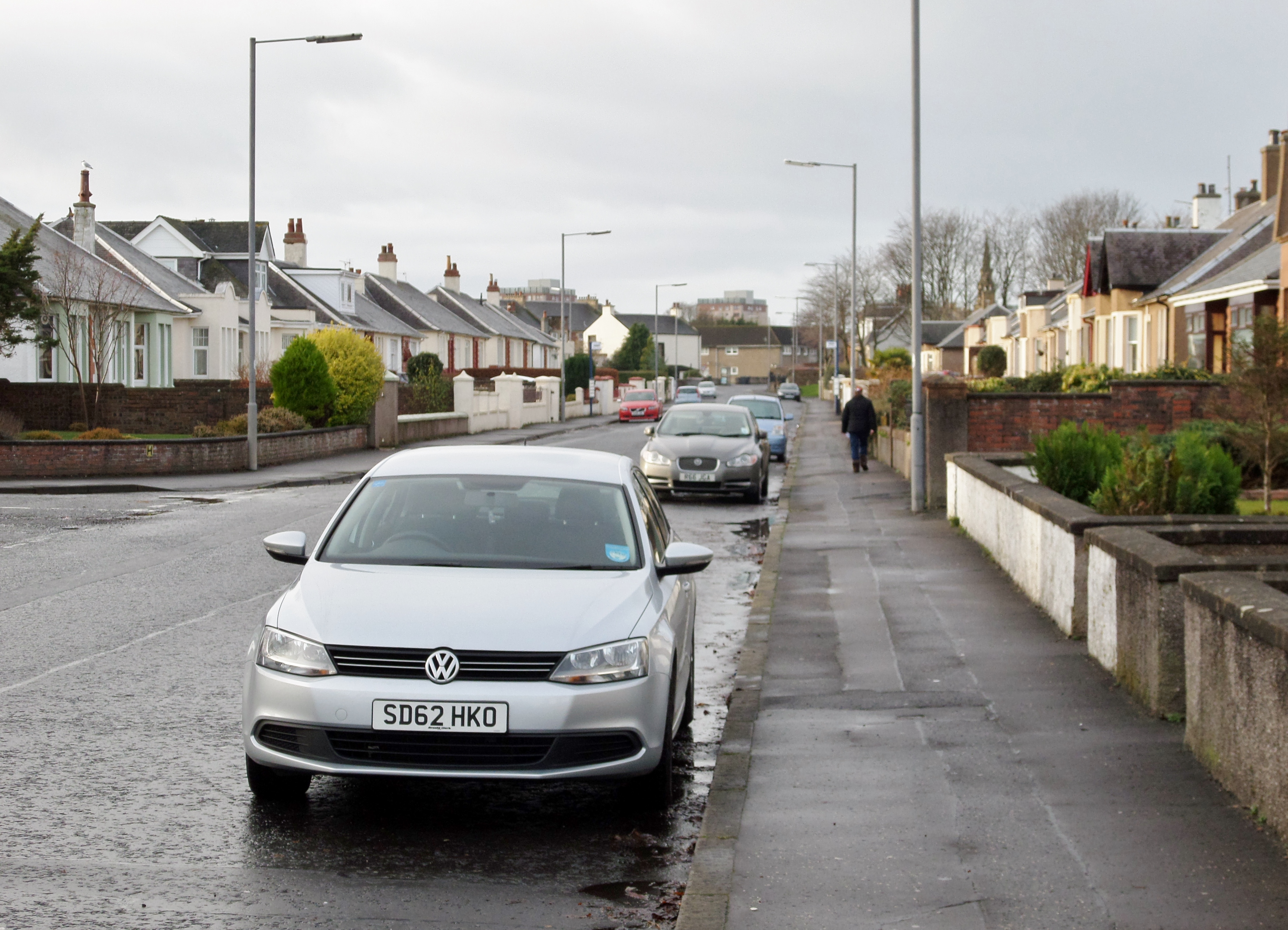 Towerlands Tram Road site, Mill Road, Irvine, Scotland. The old line ran where the pavement is located.